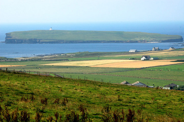 Brough of Birsay, tidal islet near Birsay, Orkney